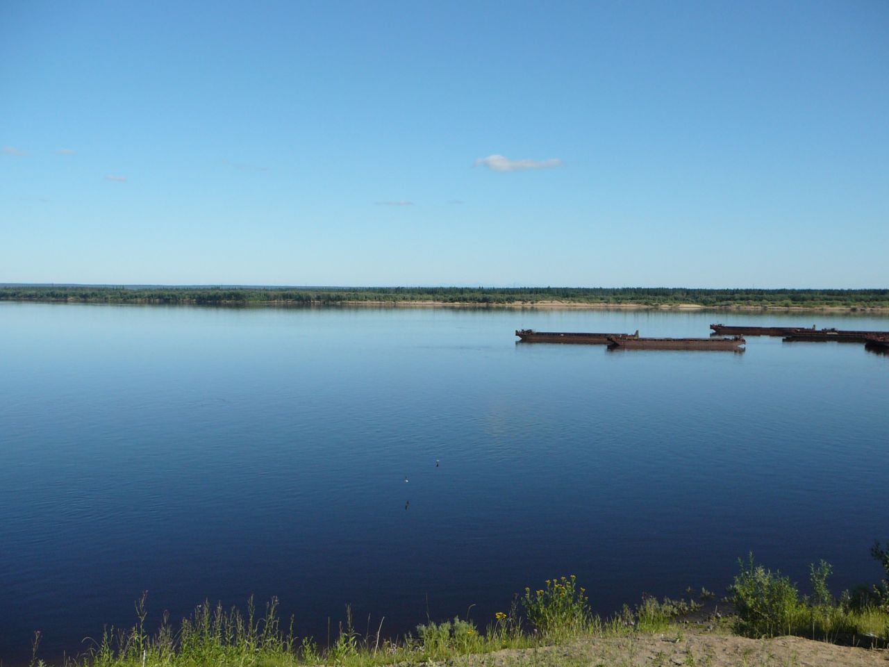 Pechora River near the town of Pechora